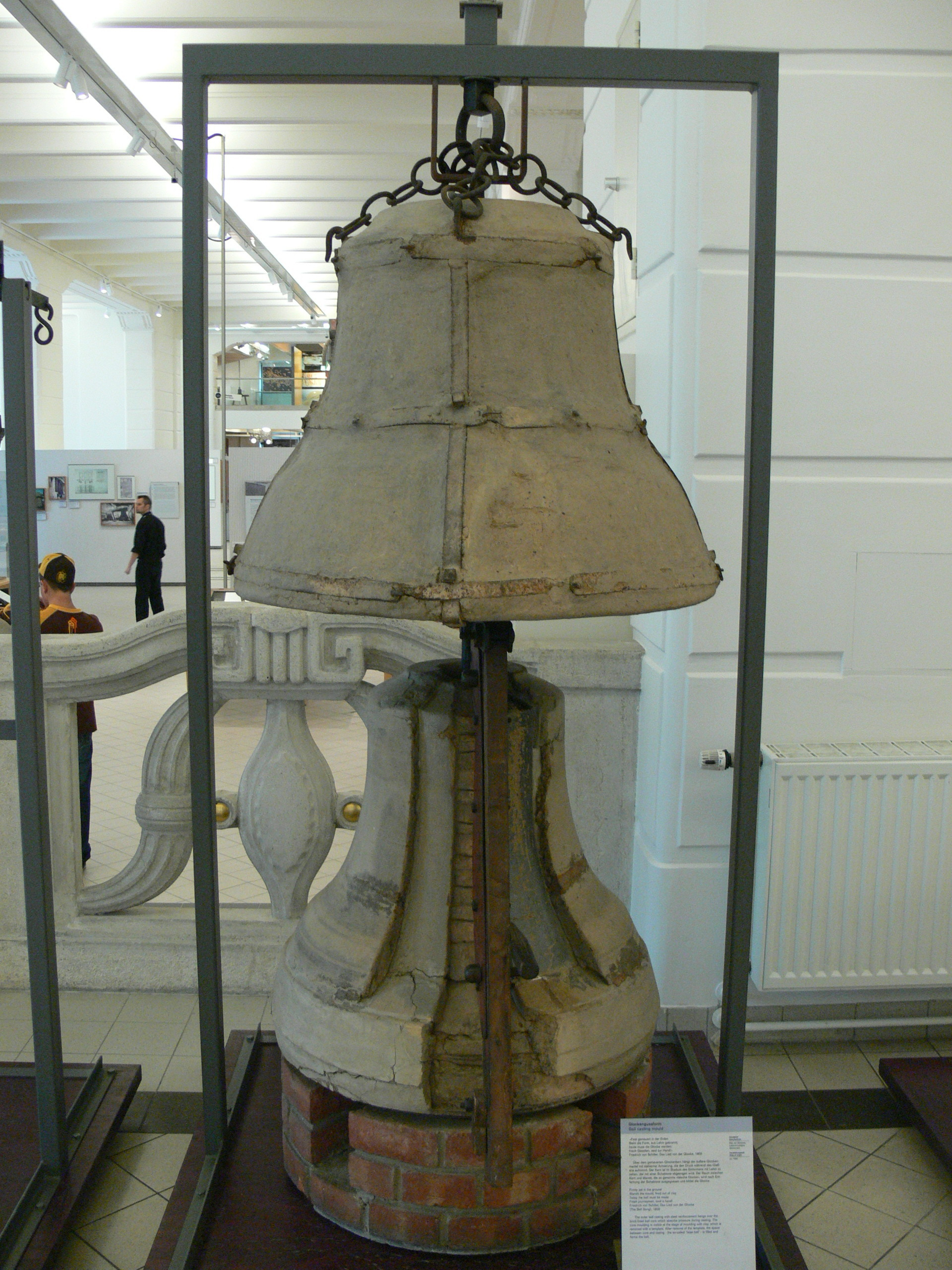 Technical Museum Vienna. Bell casting mould.